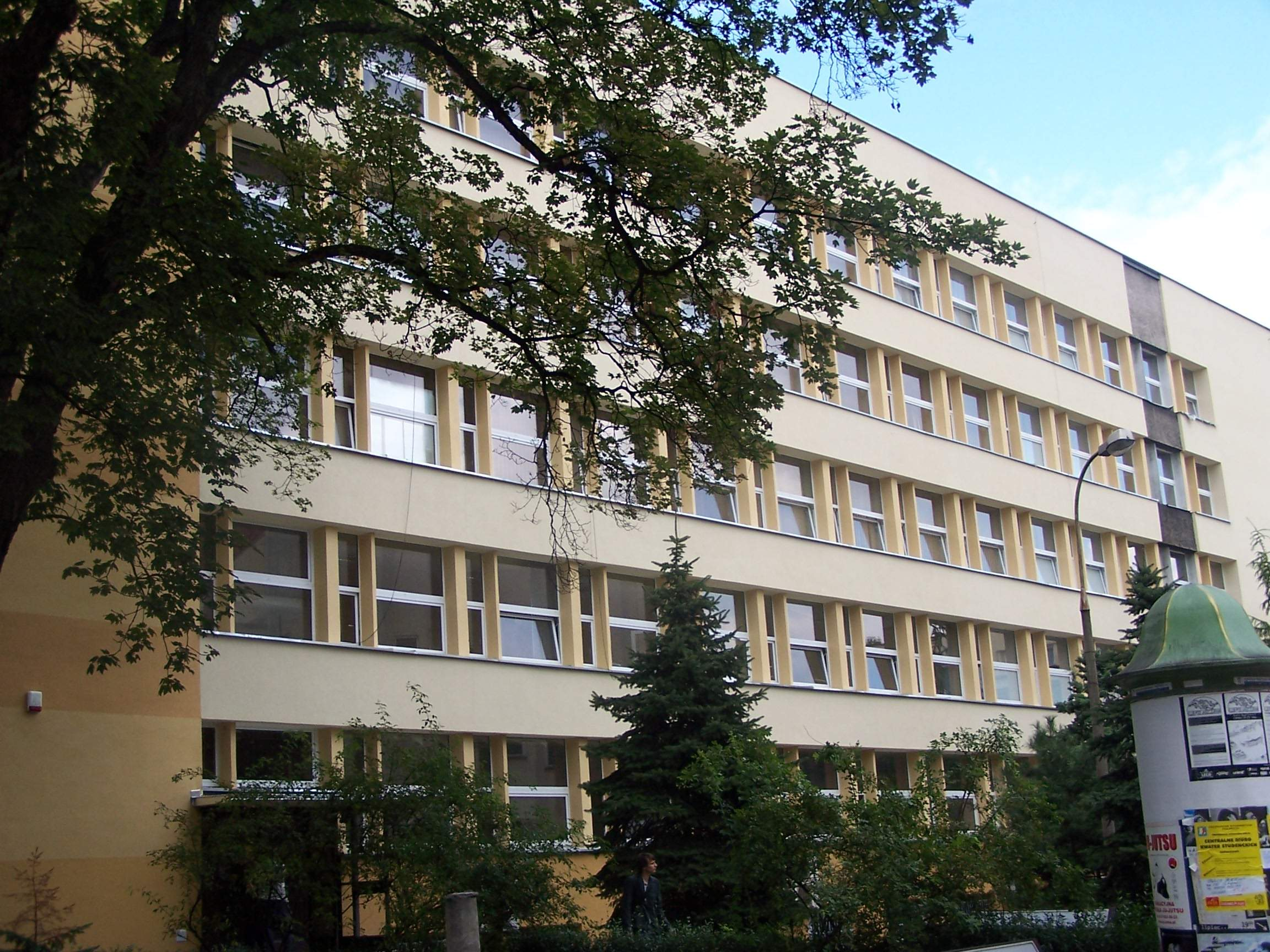 Photo by Piotrus. Academy of Economics in Kraków. Building A.